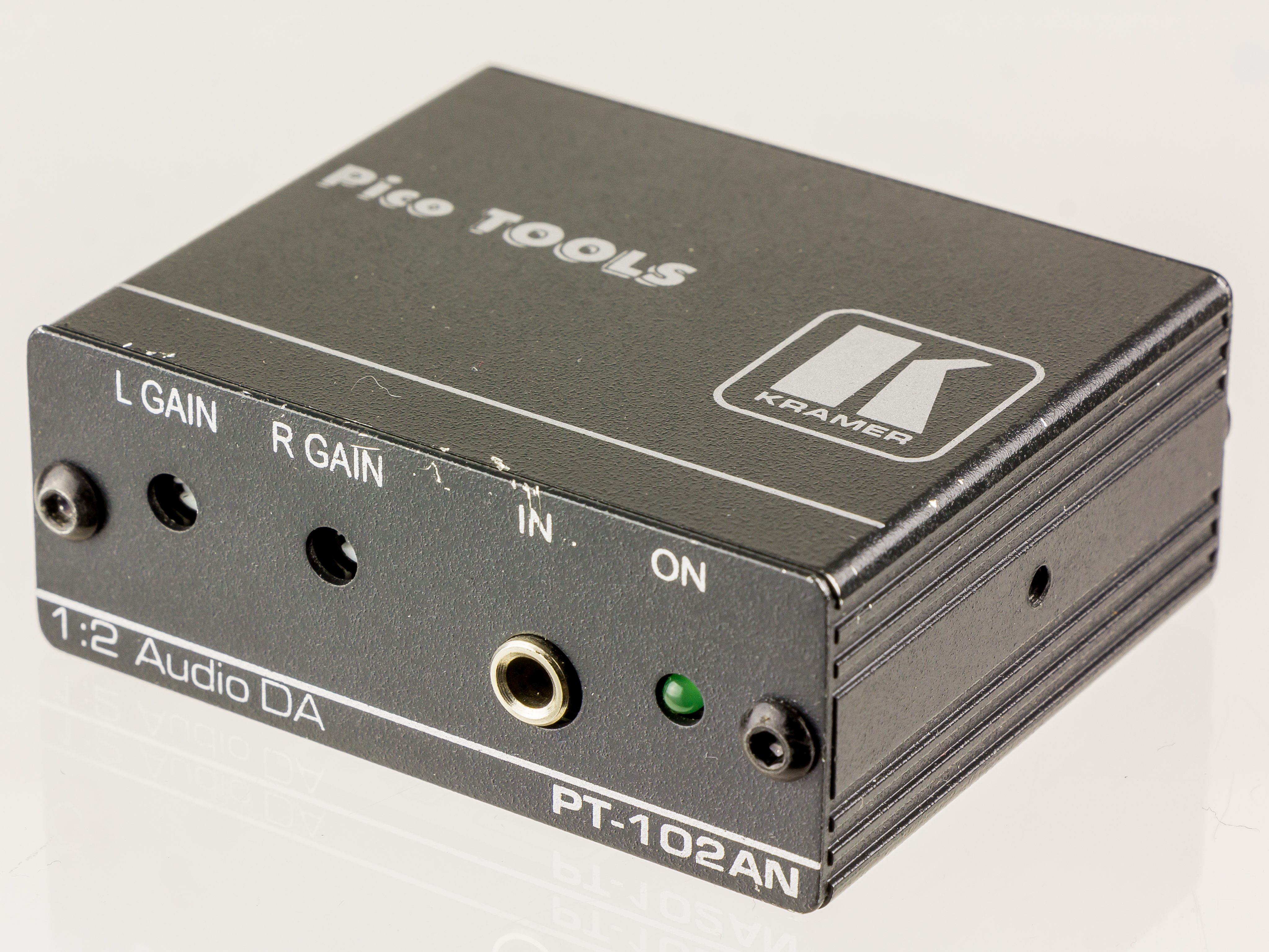 Kramer Electronics PT-102AN - Pico Tools 1:2 Audio DA